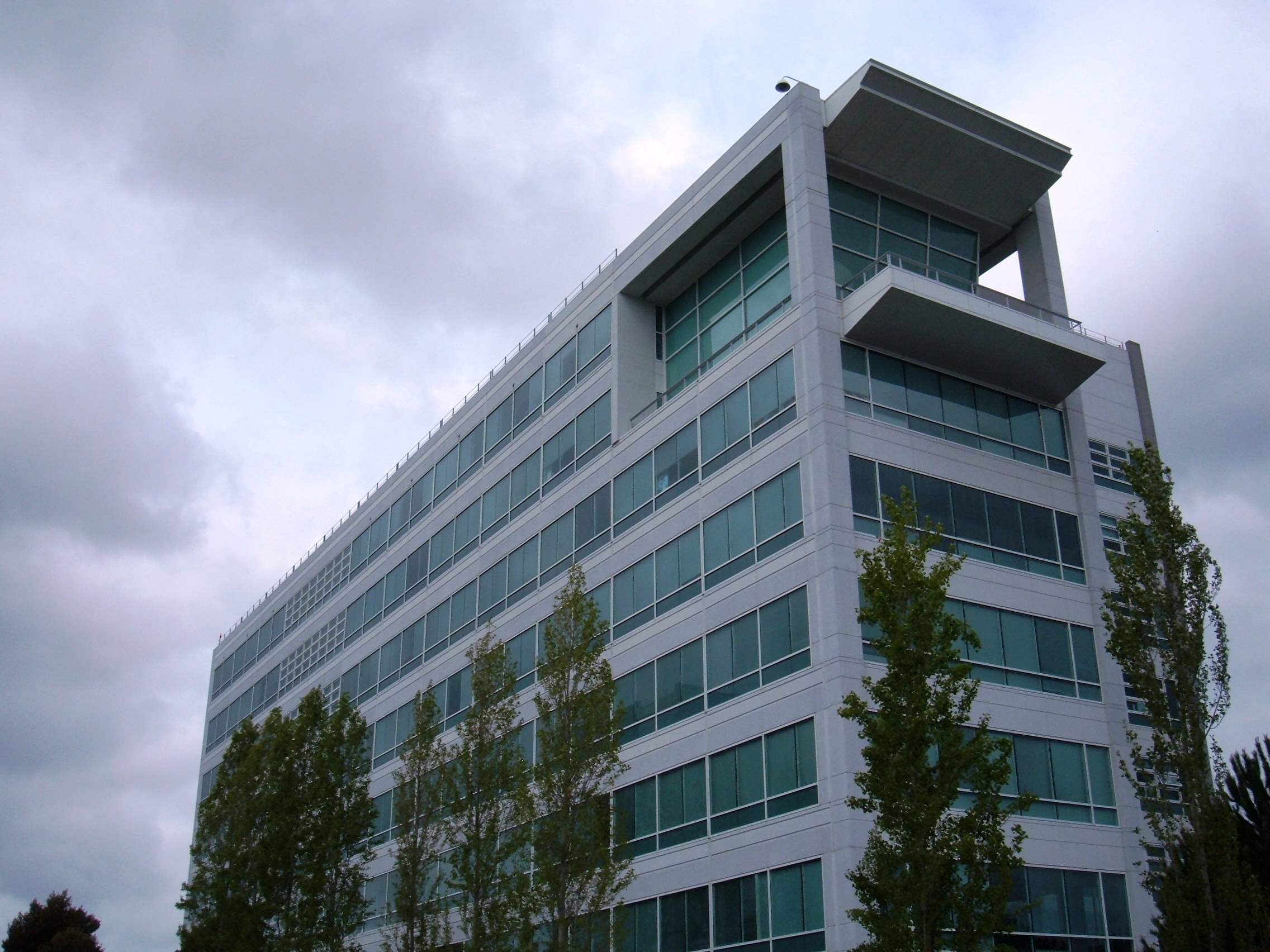 209 Redwood Shores Parkway, the principal executive offices of Electronic Arts in Redwood City, California.